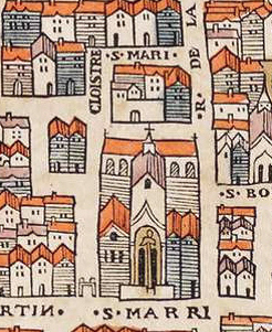 St-Merri church on the plan de Truschet and Hoyau (1550).